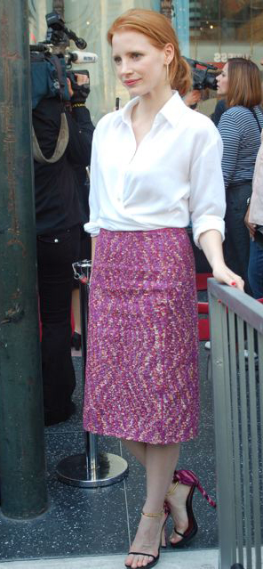 Jessica Chastain at a ceremony for Sissy Spacek to receive a star on the Hollywood Walk of Fame.